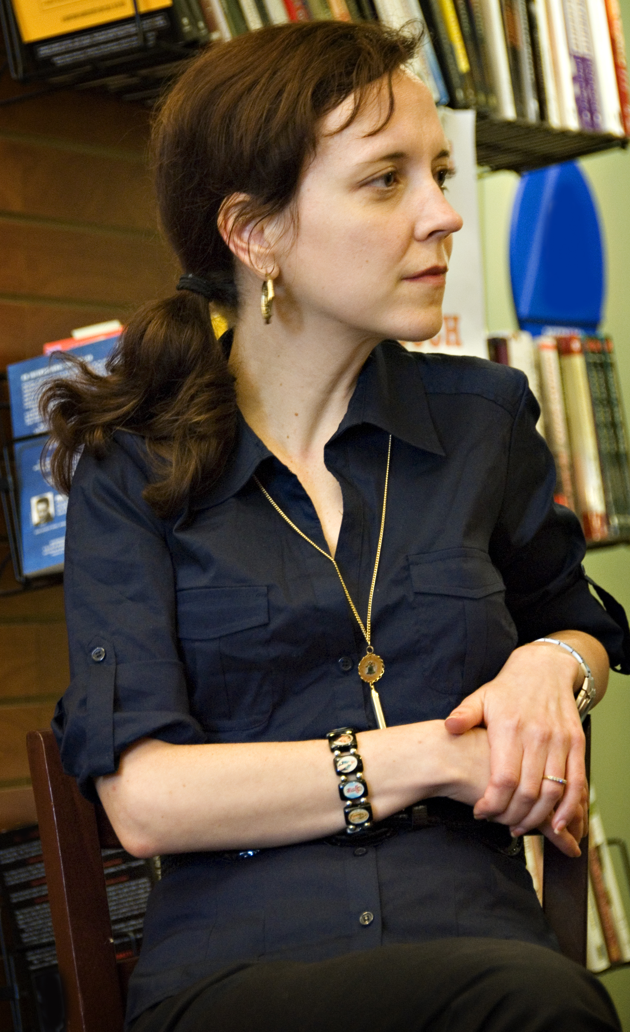 Author Megan Abbott at an appearance at "M" is for Mystery in San Mateo, CA.